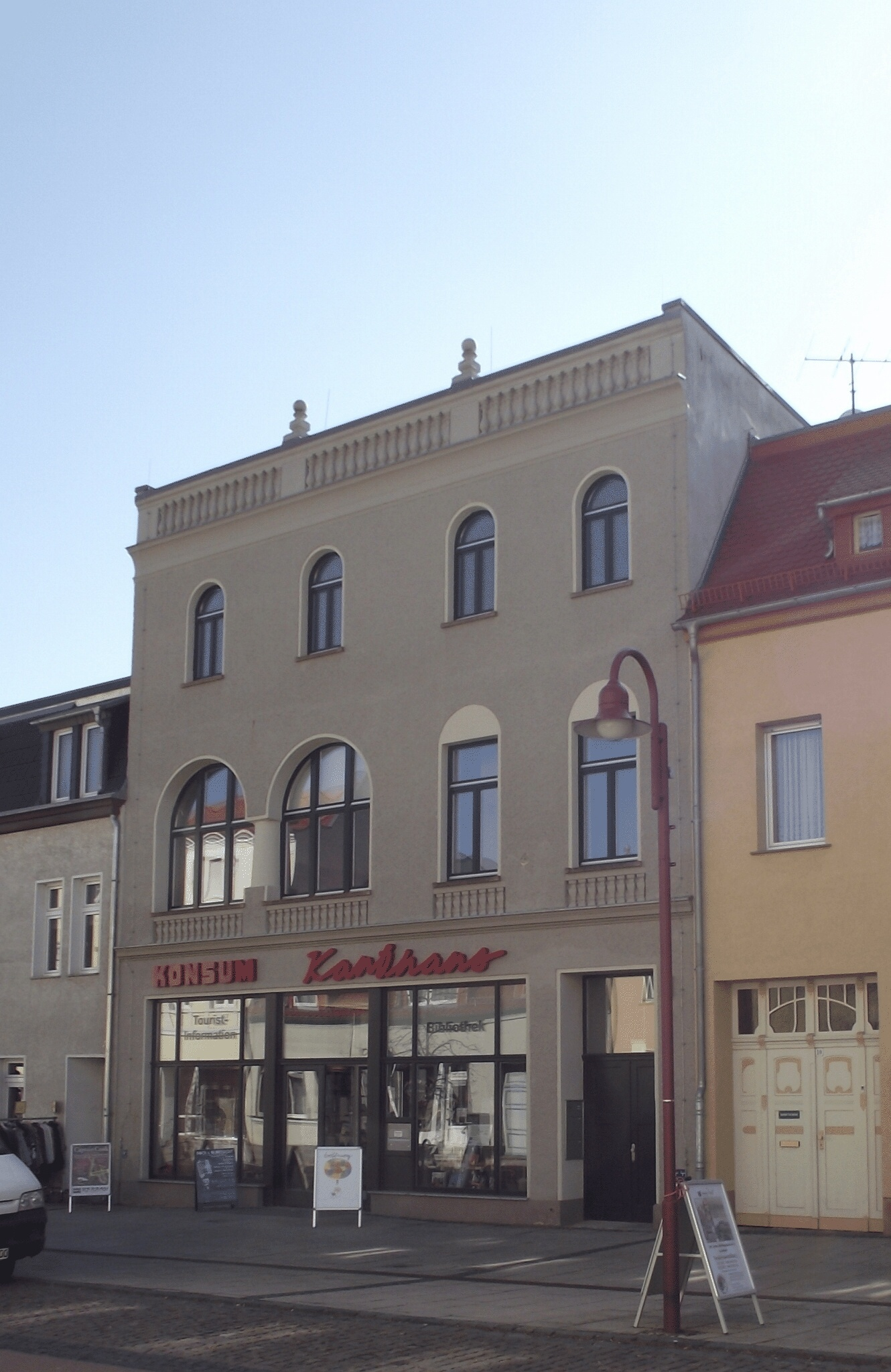 Roßlau, Public Library in the Kulturkaufhaus